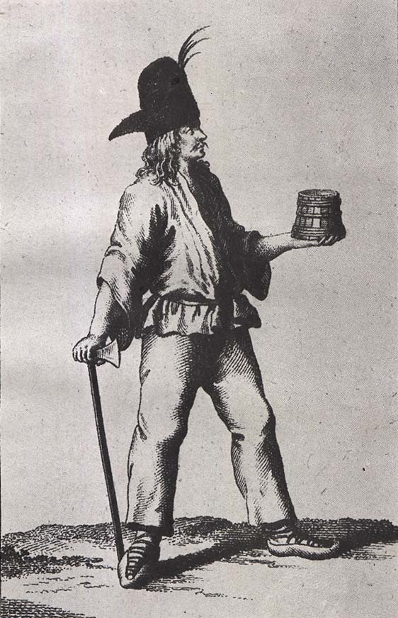 Moravian Valach from Brumov, 1786.